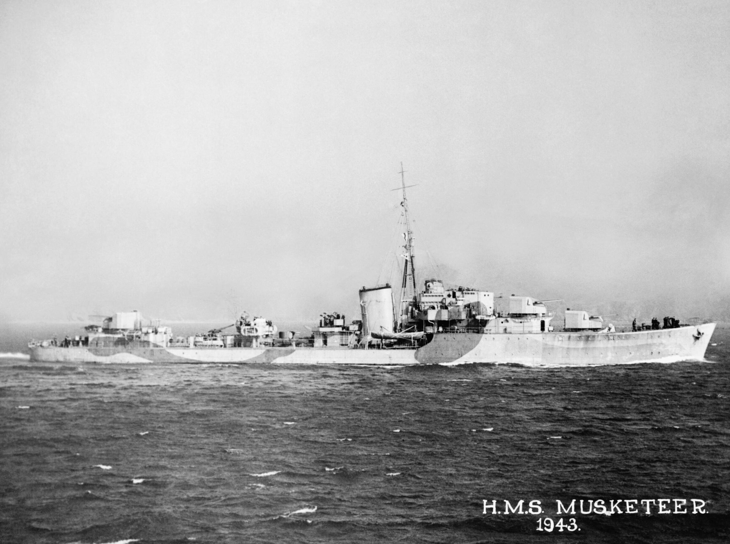 The Royal Navy during the Second World War A broadside view of the 'M' class destroyer HMS MUSKETEER underway at sea.